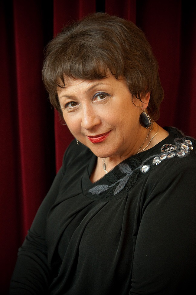 Irina Sharapova. Russian pianist, accompanist, Honored Artist of Russia and Professor